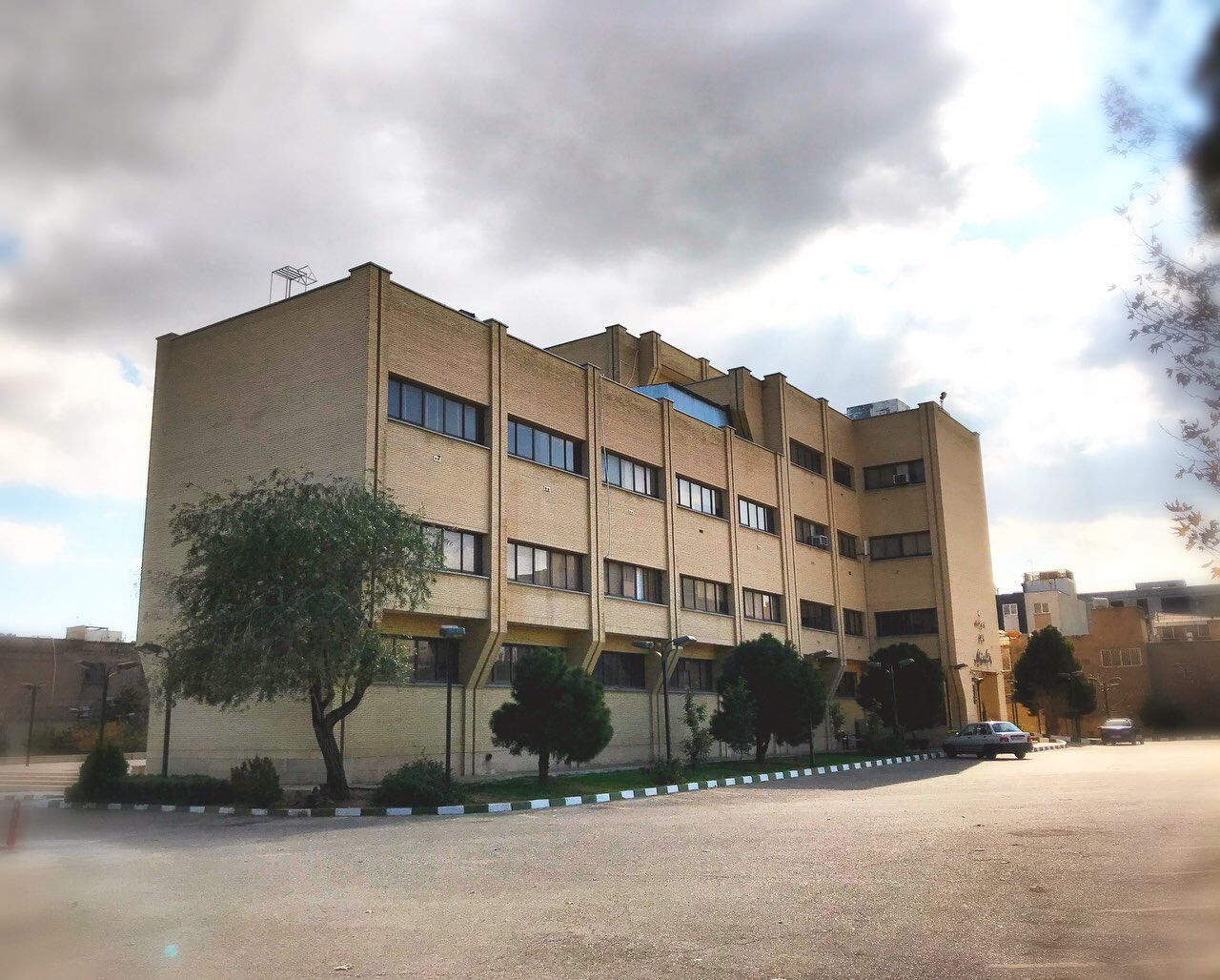 Mechanics